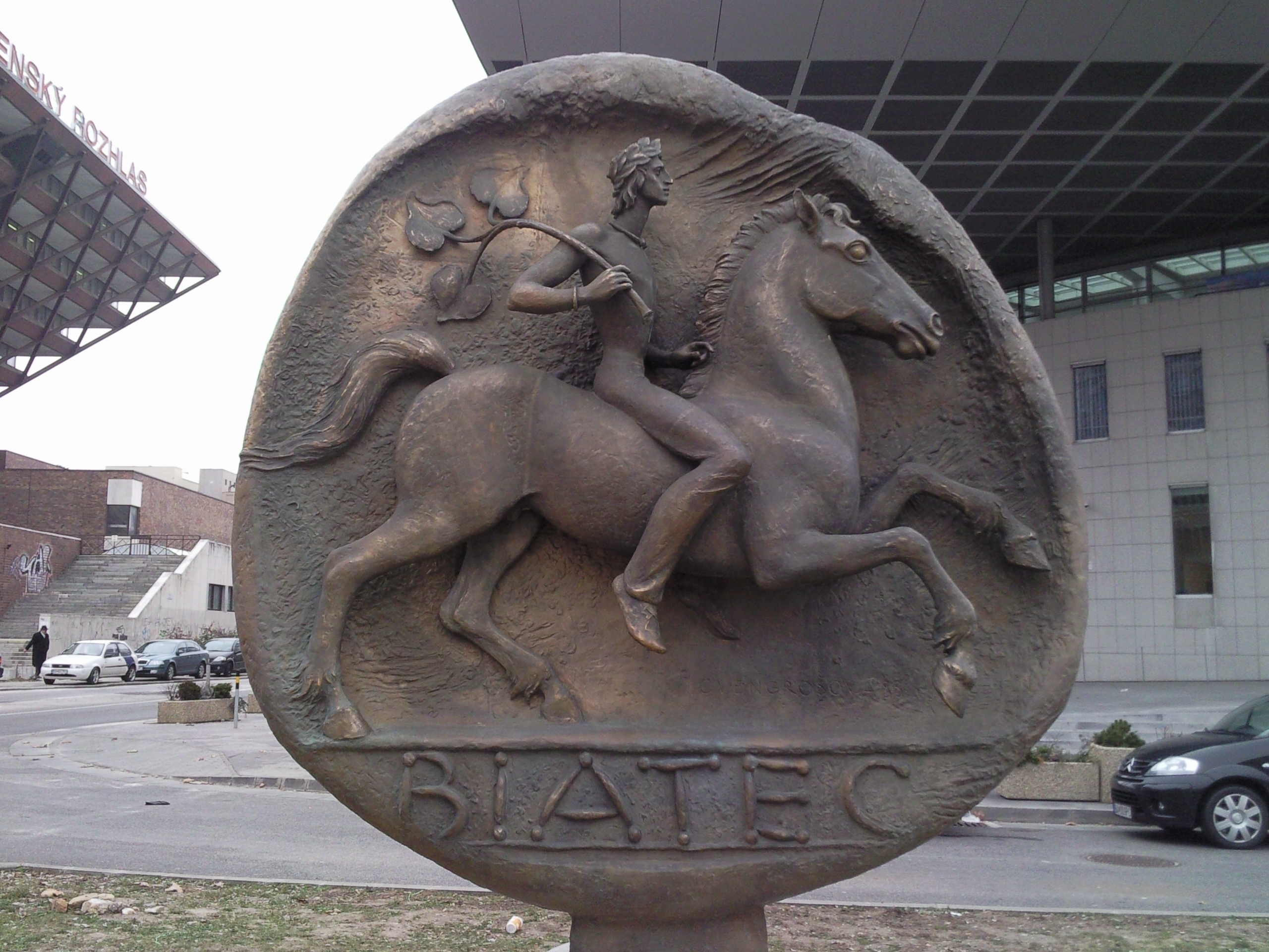 Biatec sculpture in Bratislava at National Bank of Slovakia.